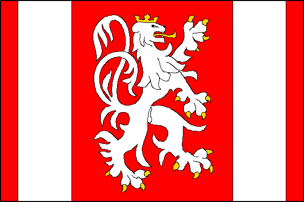 Municipal flag of Dašice town, Pardubice District, Czech Republic.